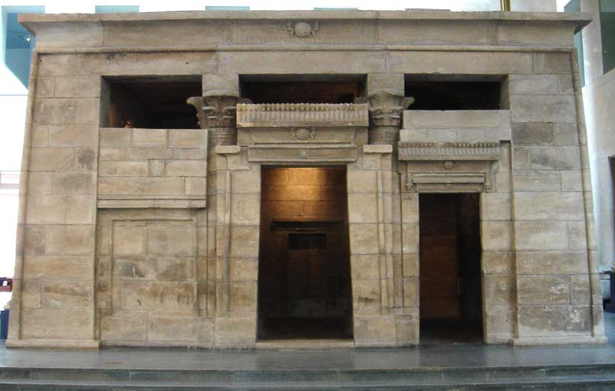 The Temple of Taffeh in Leiden, the Netherlands. This small Ancient Egyptian temple was donated to Holland by the Egyptian authorities in gratitude for their help in saving the Abu Simbel temple from being flooded by the Aswan dam project in the 1960s.